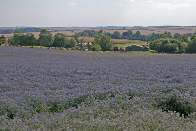 Thorpe Farm. I think the purple crop is one of the Phacelia family. (Note: It's a borage field.) This photo 183019 shows much the same view fourteen months previously.